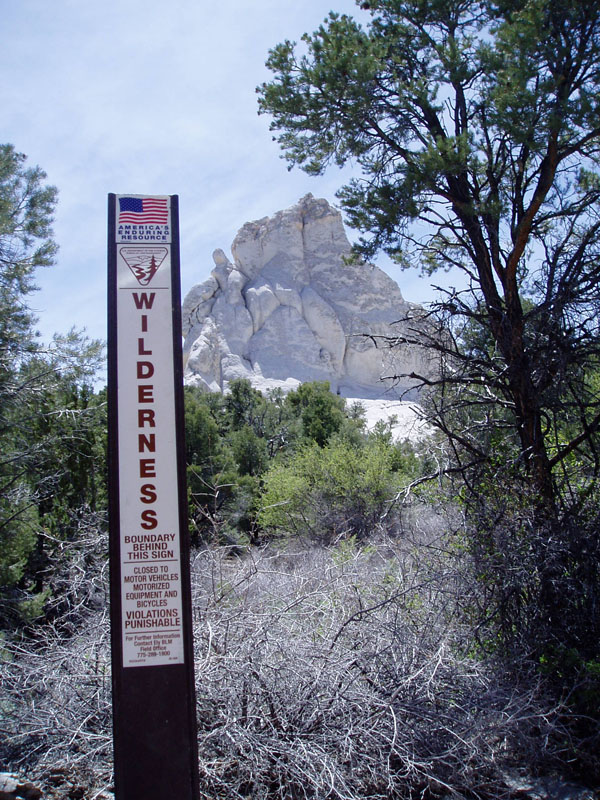 Fortification Range Wilderness in Northern Lincoln County, Nevada, United States